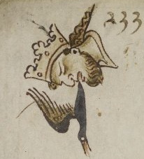 Matthew Paris recorded the death of the "sultan of Babylon" (Al-Kamil) in the year 1237. A black bird emerging from the lips of the sultan. British Library, Royal 14 C VII f. 127v